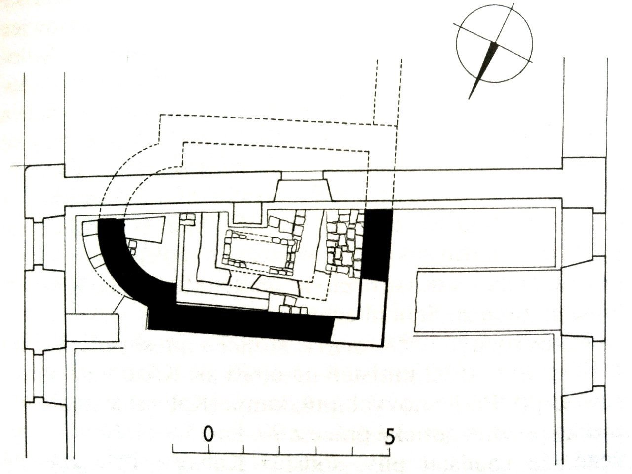 First Prague church of Our Lady (9th century).